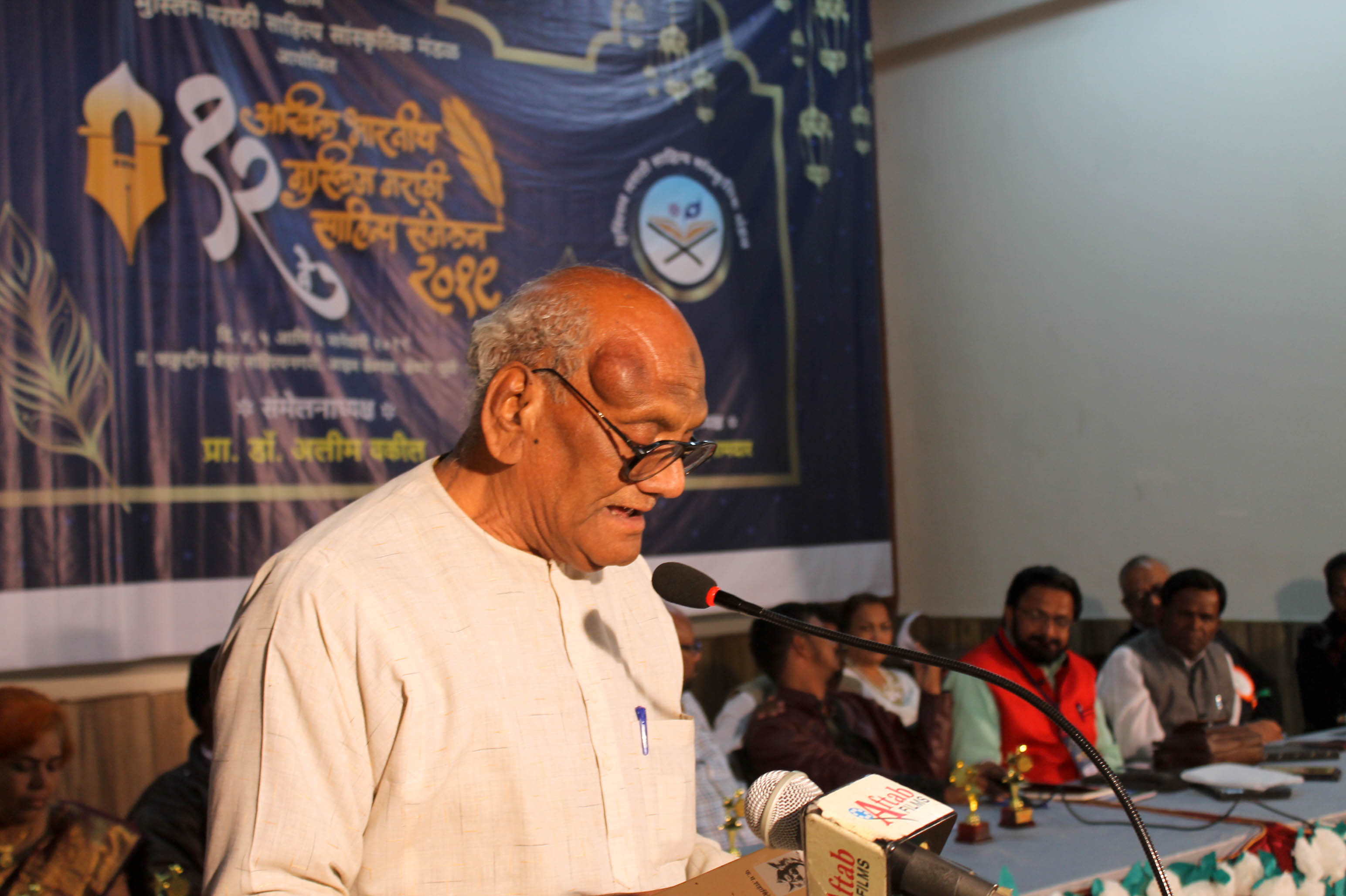 F. M. Shahajinde Speak to Muslim Marathi sahitya Samelan Pune 2019